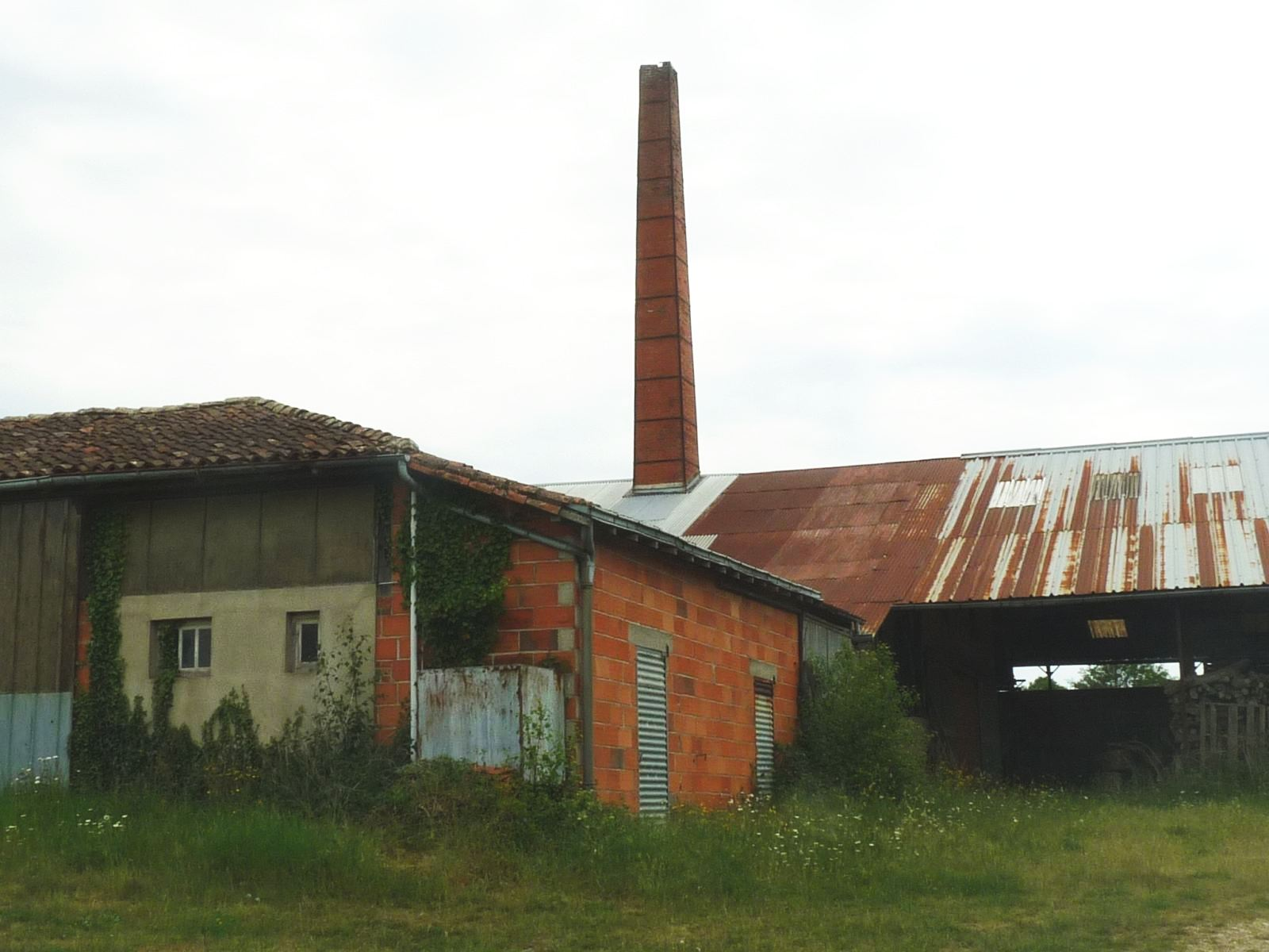 old brick factory at Chardat, Abzac, Charente, SW France